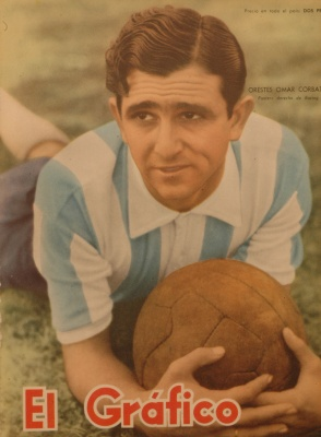 Oreste Corbatta during his tenure on Racing of Argentina.